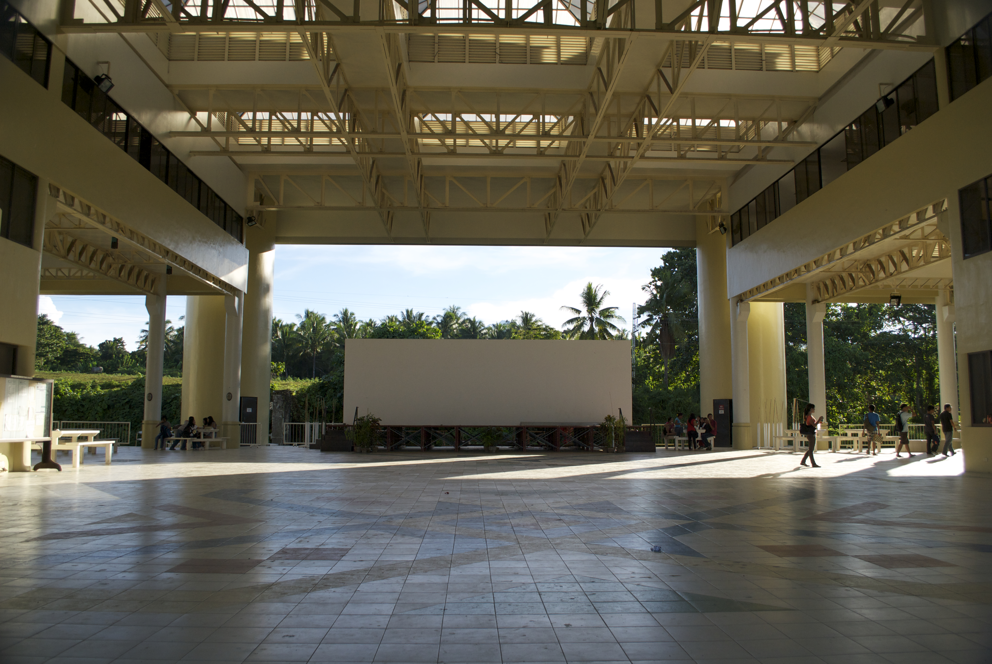 Atrium, Administration Building, UP Mindanao